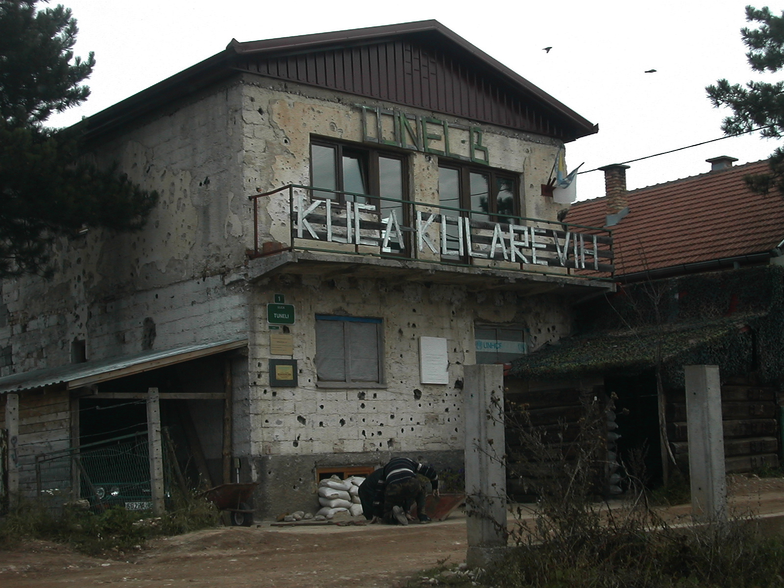 The location of the Sarajevo tunnel's entrance - now a museum.